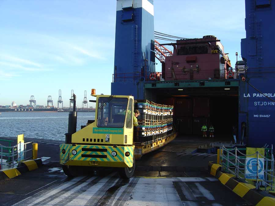 The heavy-lift ship La Paimpolaiseun loading Ro/Ro cargo in Rotterdam.